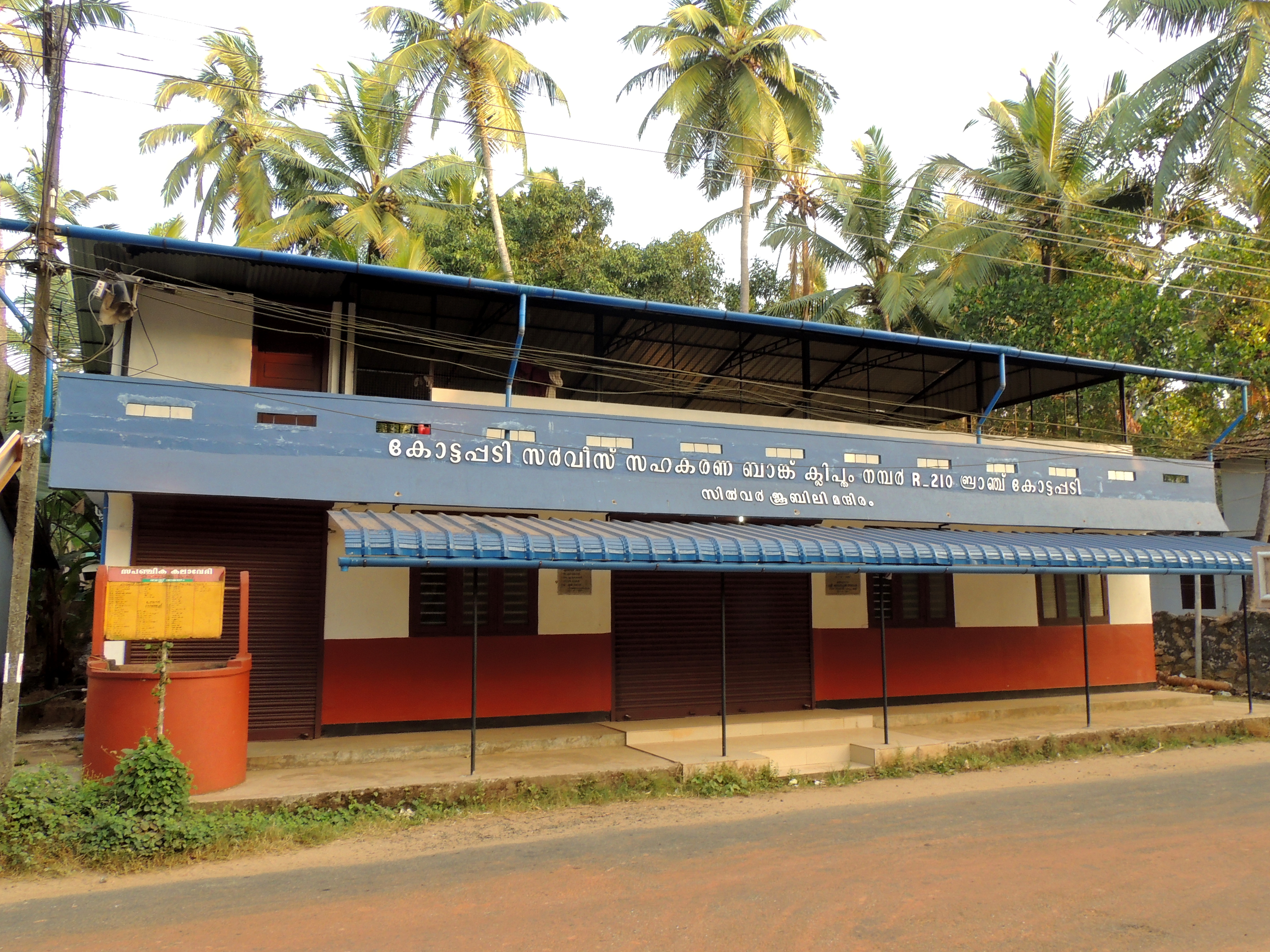 Kottapadi Co-Operative Bank